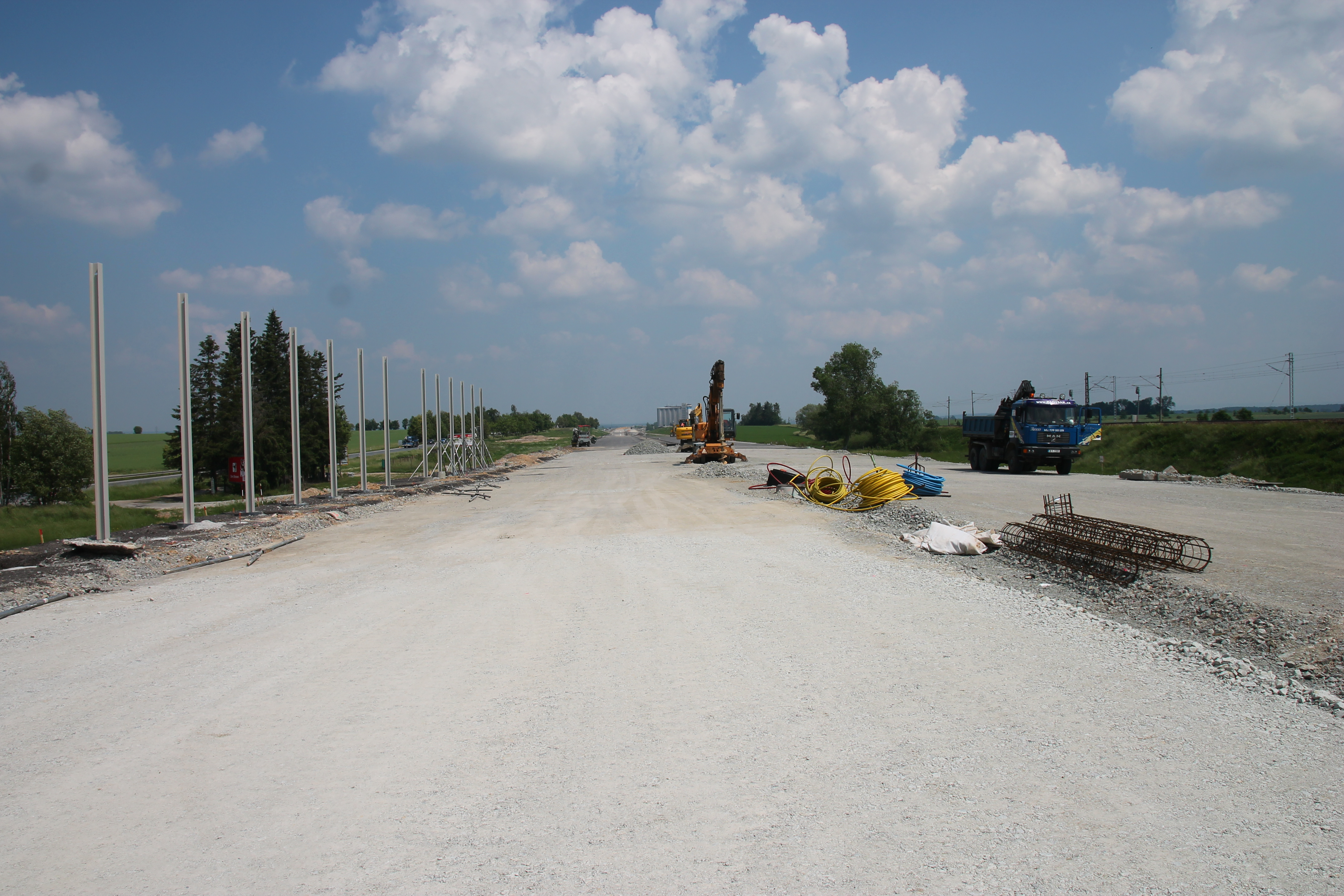 Construction of Highway D3 (section 0309/I) near Neplachov